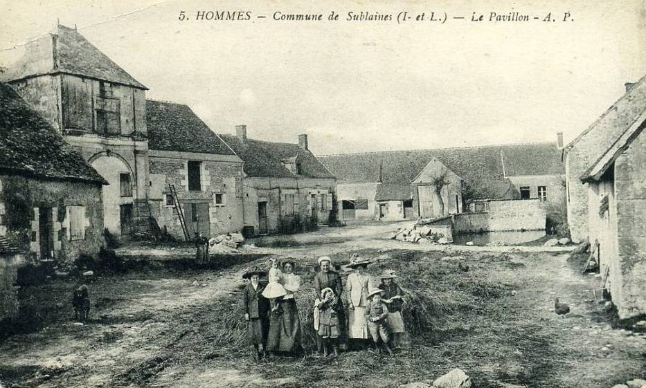 Old Farm (16th century) in the hamlet of Hommes in the commuune of Sublaines (France, département of Indre-et-Loire), after an old postcard, ca. 1900.